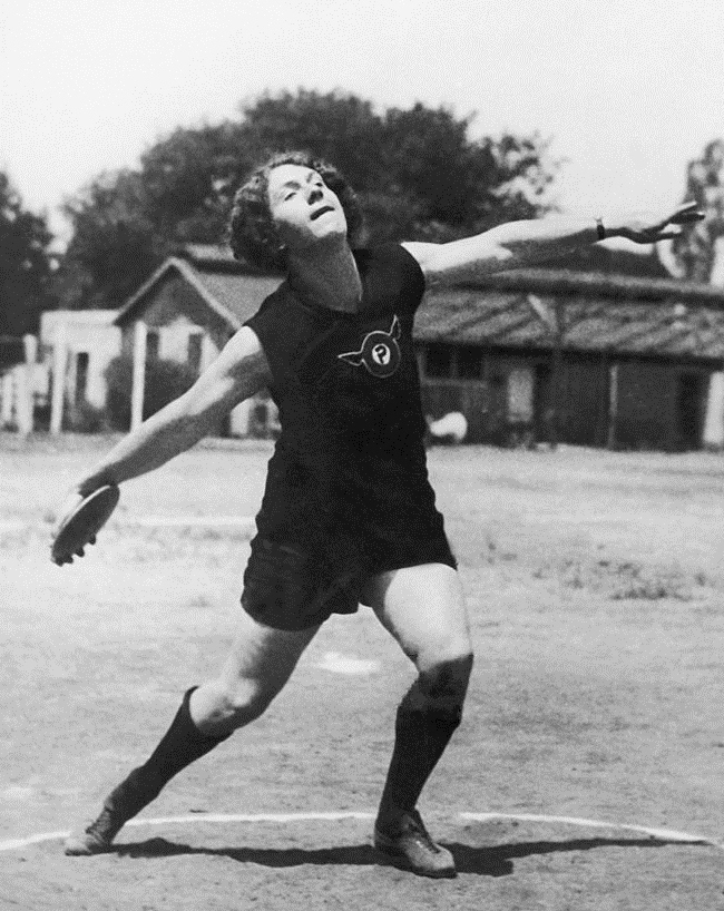 American Athlete Lillian Copeland At Discus Throw In Amsterdam.